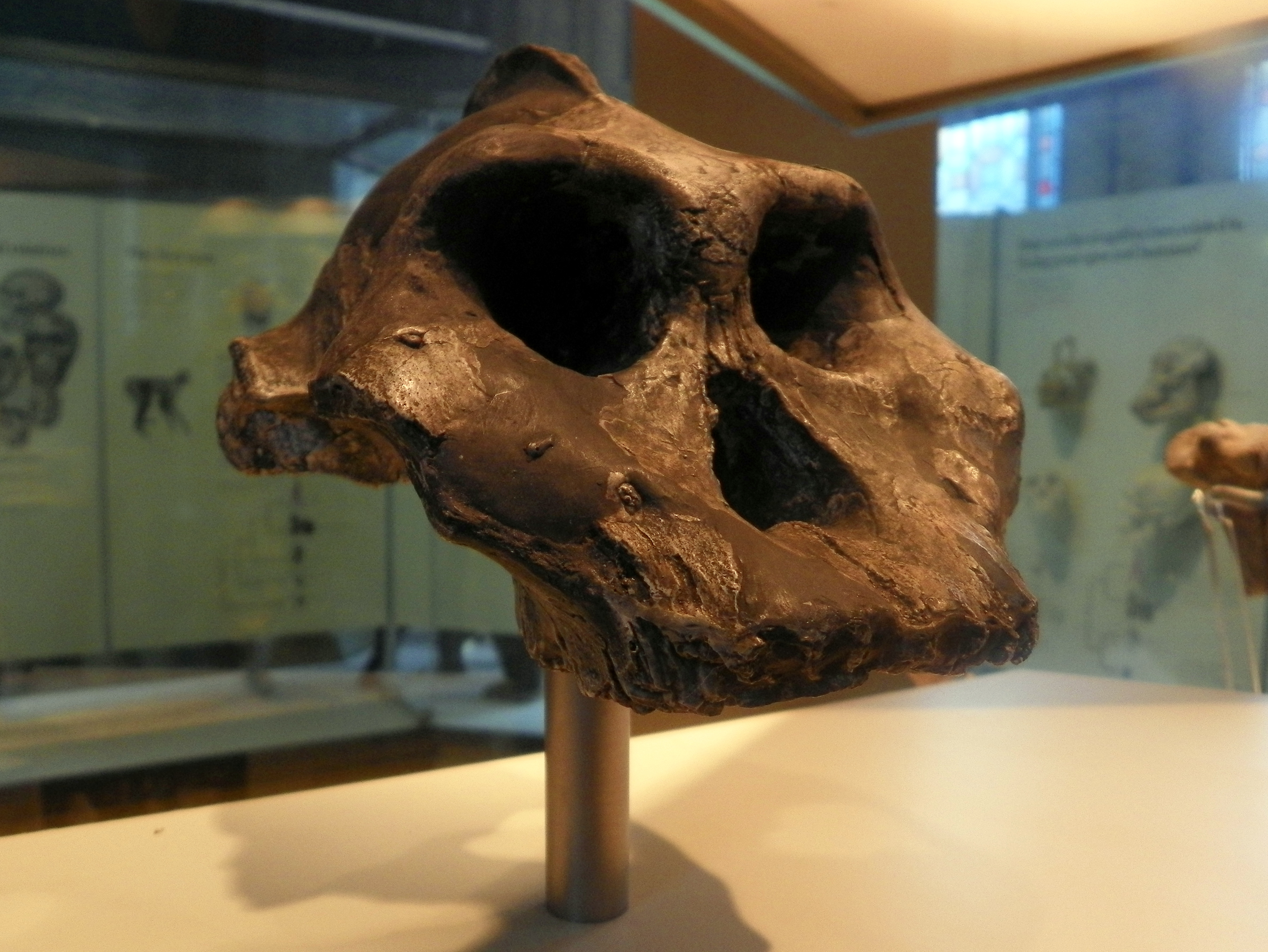 Paranthropus aethiopicus skull cast, Lomekwi, Kenya. Natural History Museum, London, 27 August 2012.